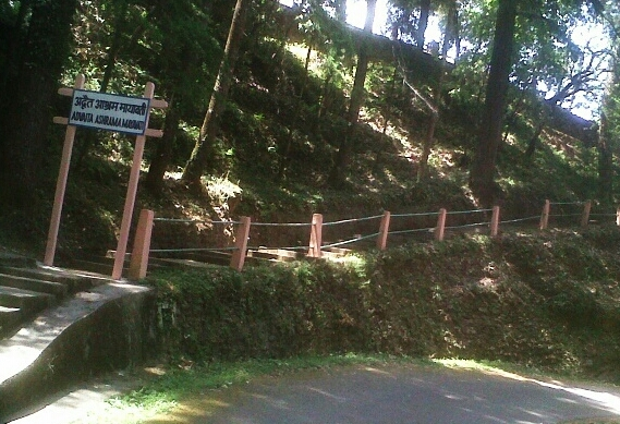 Gateway of Advita Ashrama, Uttarakhand